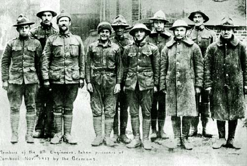 American prisoners of war, Oregon State Defense Council Records